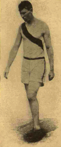 Dan Kelly